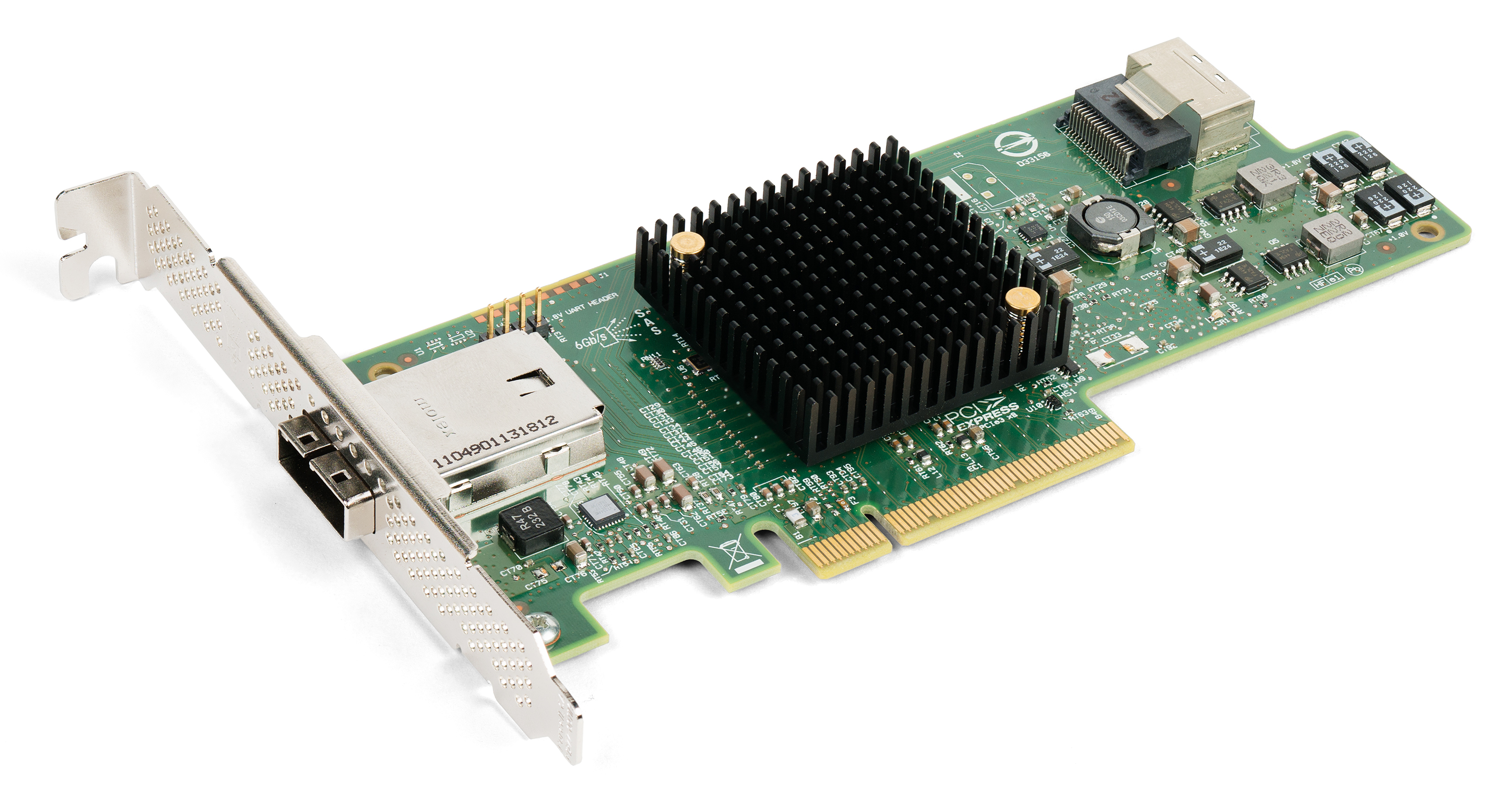 LSI 9207-4i4e SAS HBA. PCI Express 3.0 x8 expansion card. One x4 mini-SAS internal connector (SFF-8087) One x4 mini-SAS external connector (SFF-8088) Up to 256 SAS or SATA end devices